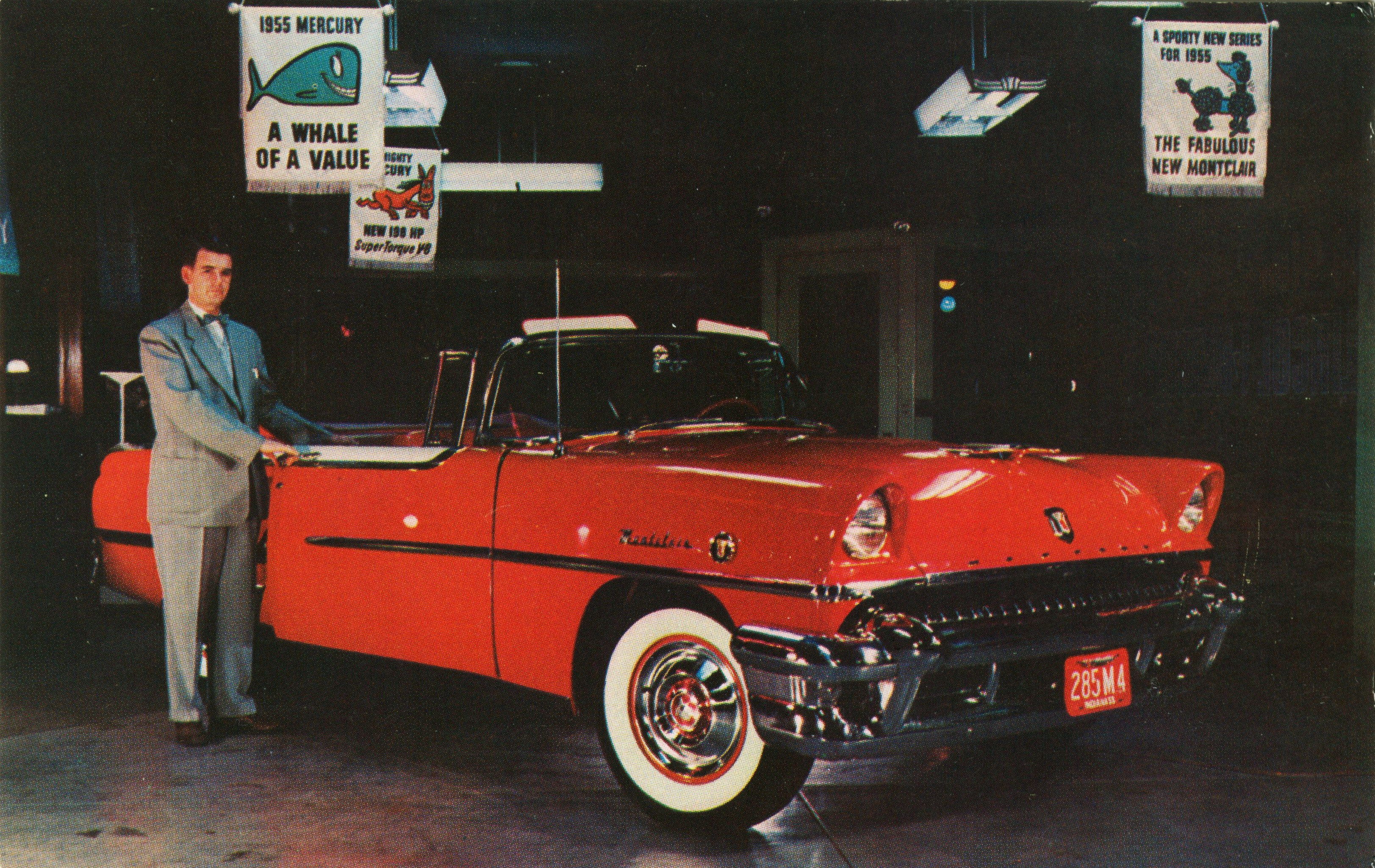 Hendricks Lincoln-Mercury of Kokomo, Indiana showed off a new Montclair Convertible on their showroom floor.